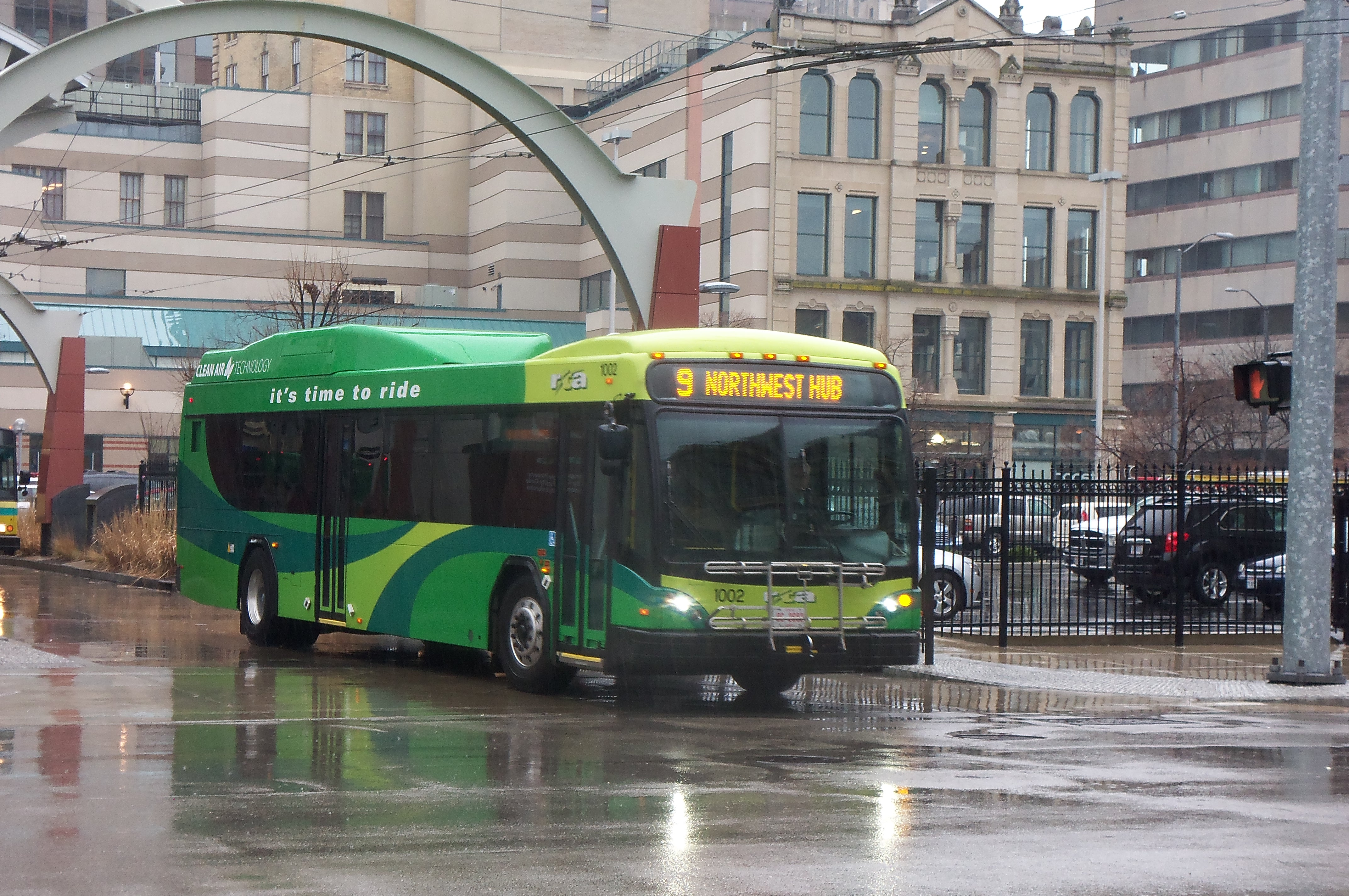 Greater Dayton Regional Transit Authority bus 1002, a 2010 Gillig BRT-style hybrid bus, starting to pull out of the Wright Stop Plaza Transit Center onto Jefferson Street, in service on route 9